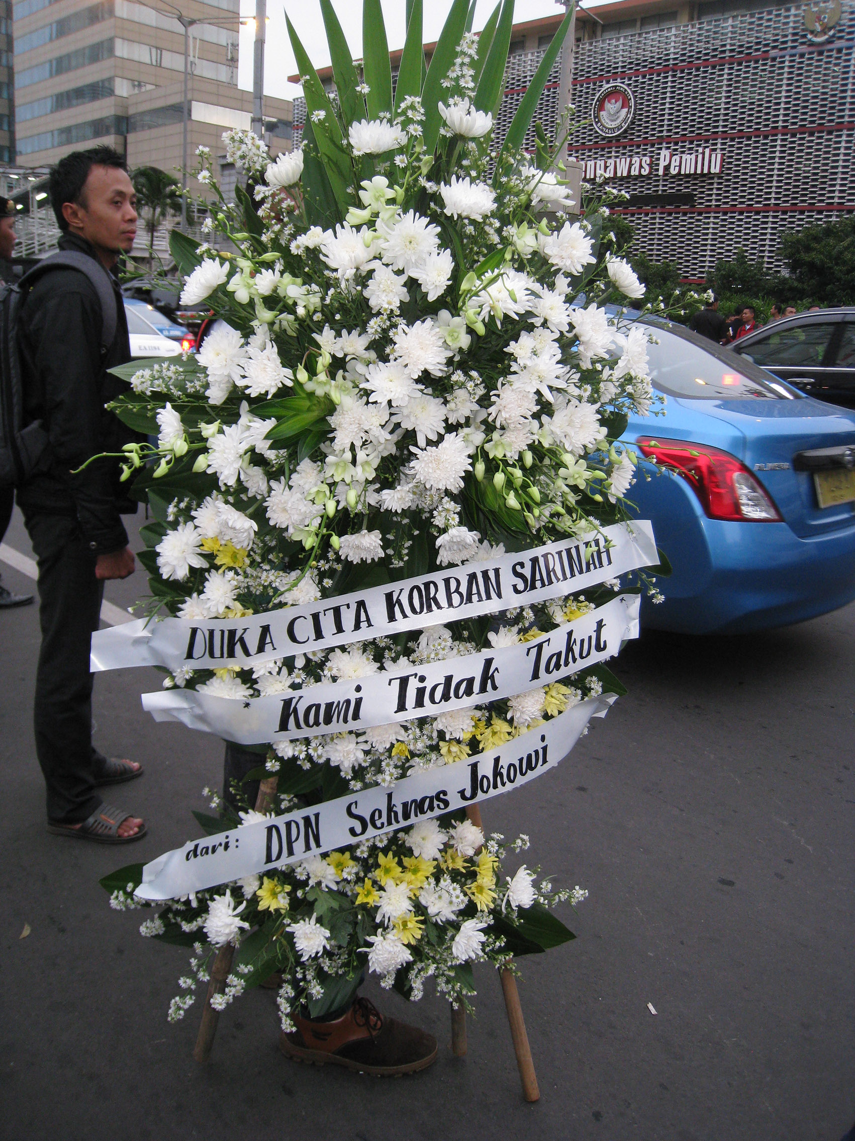 Condolences flower in front of Sarinah Building, Jalan MH Thamrin. Location of Sarinah-Starbucks terrorist attack in Central Jakarta, 14 January 2016. The text: "Duka Cita Korban Sarinah, Kami Tidak Takut, dari DPN Seknas Jokowi" translation: "Condolences for Sarinah victims, We are Not Afraid, from DPN Seknas Jokowi".